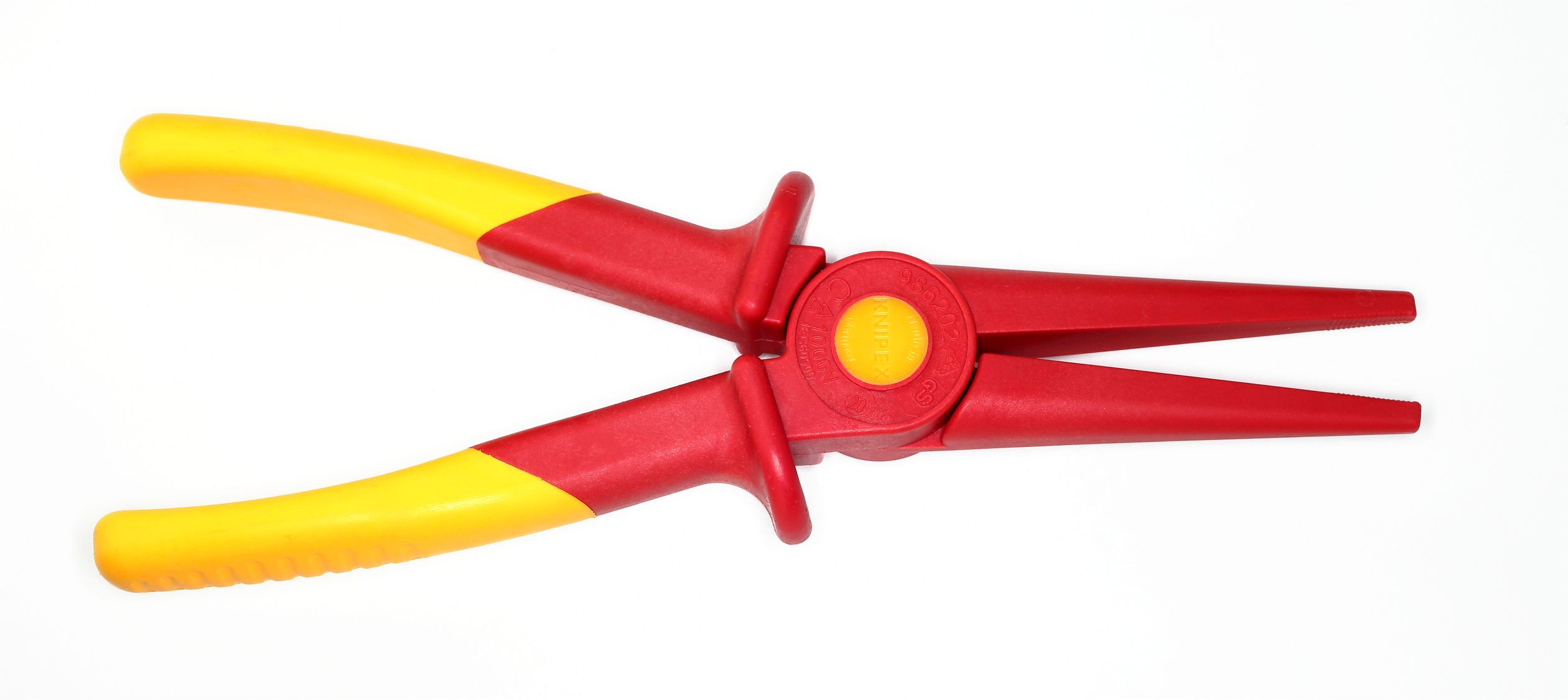 Long Nose Plier made of fiberglass